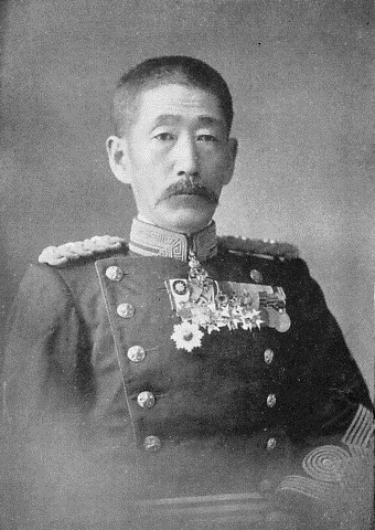 Torataro Saigo